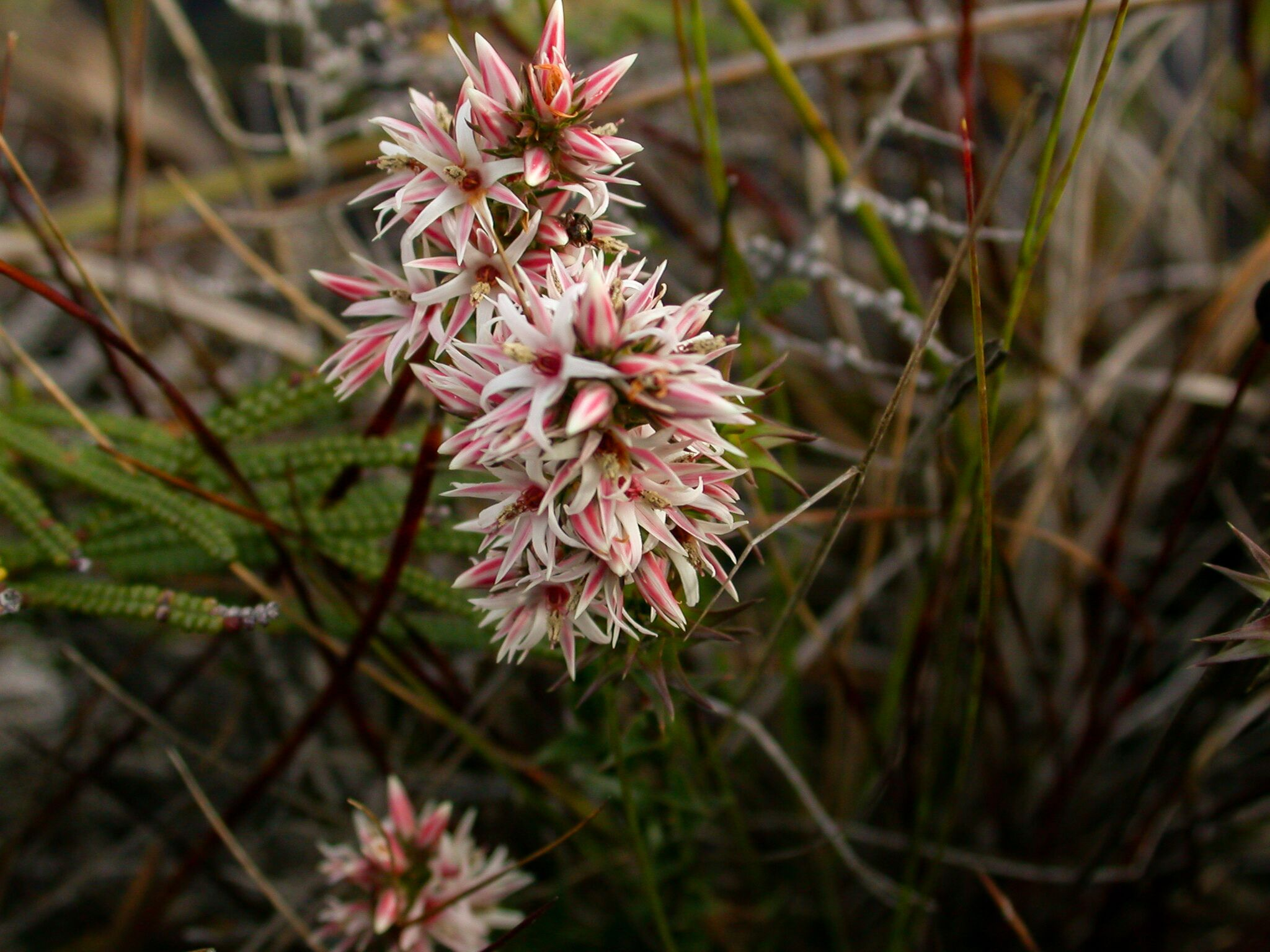 The elongated cluster of Sprengelia incarnata flowers. Photo taken by Will De Angelis at Mt Field, Tasmania